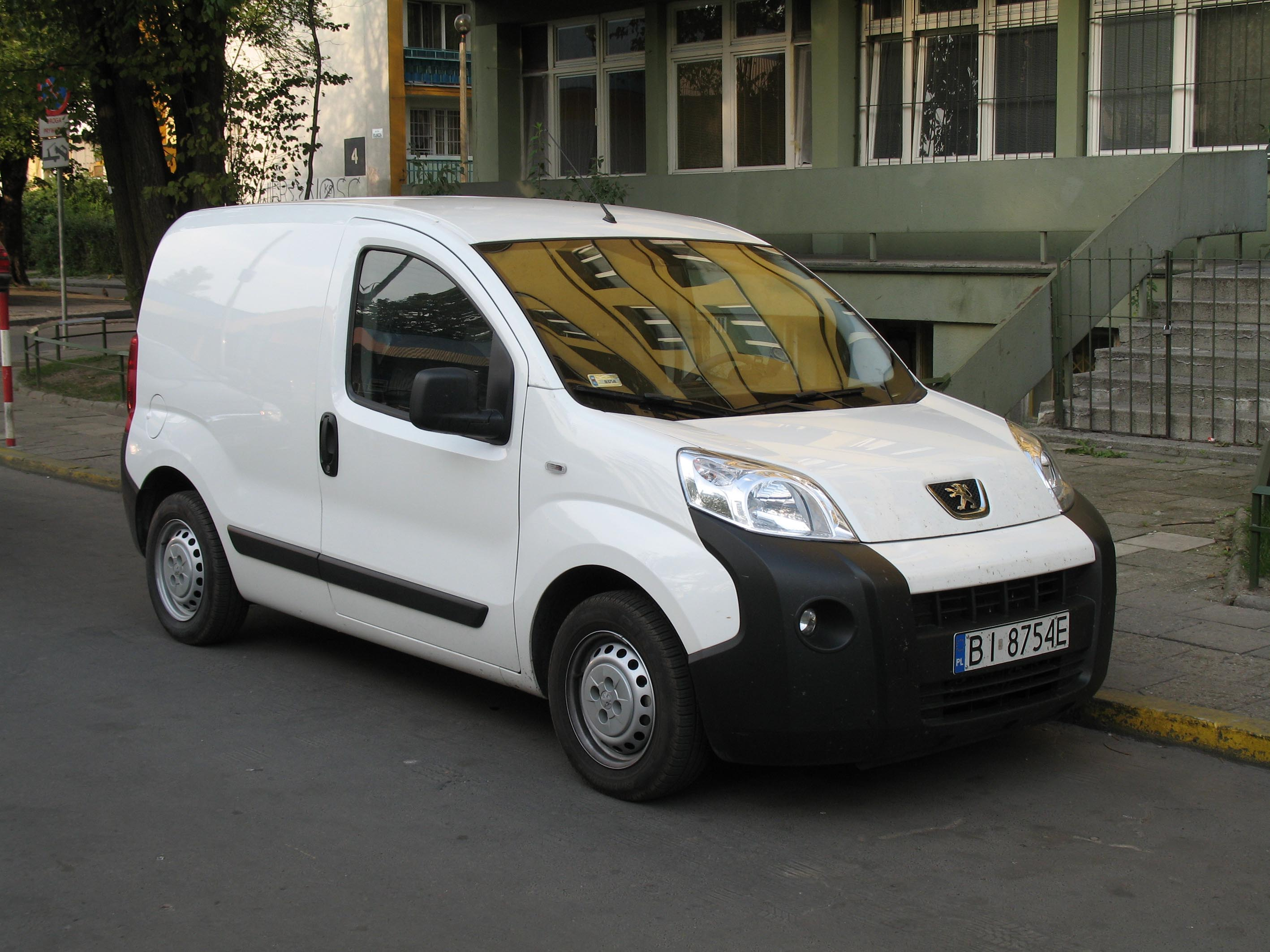 Peugeot Bipper in Kraków, Poland.